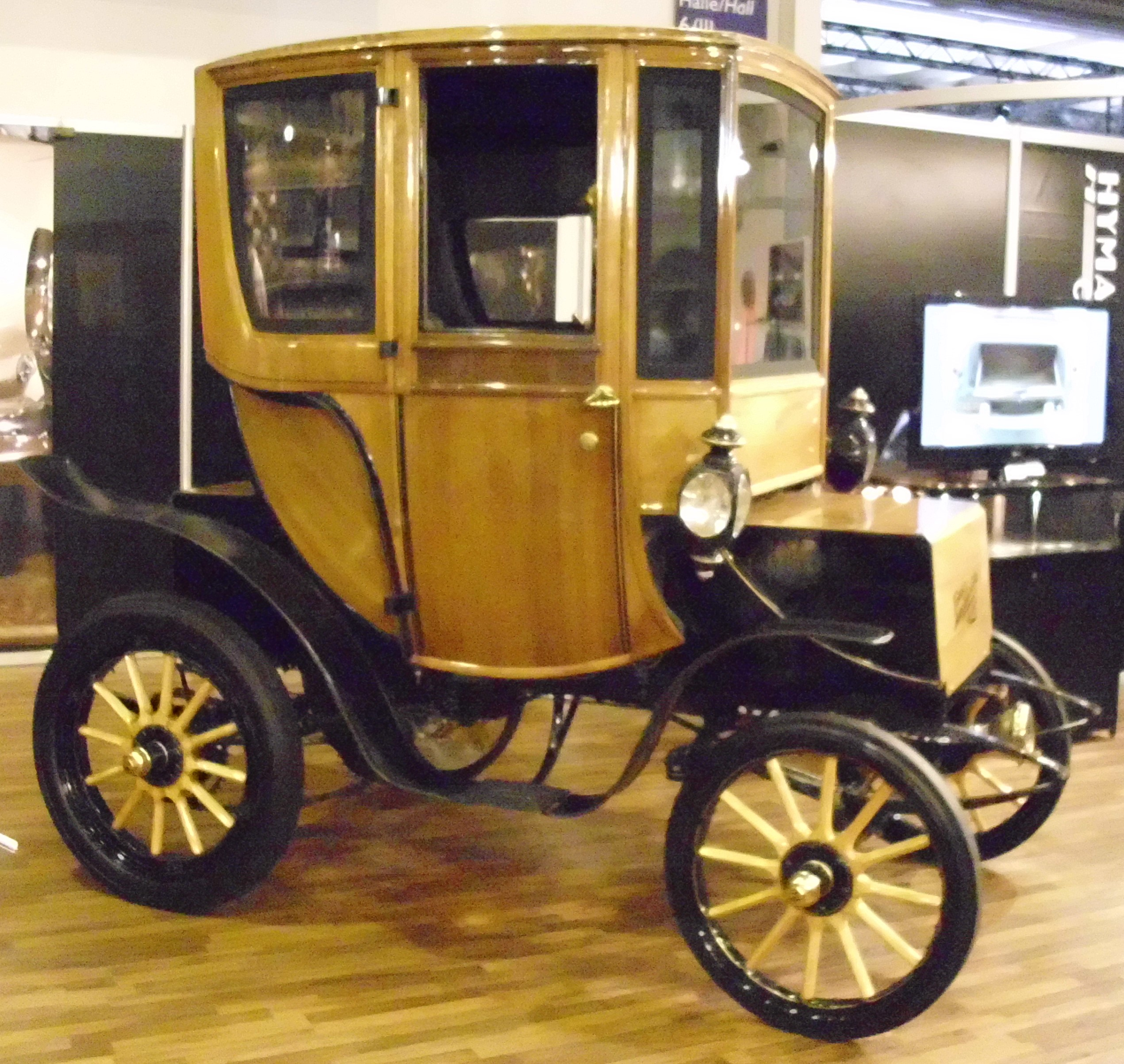 Woods Electric 1905